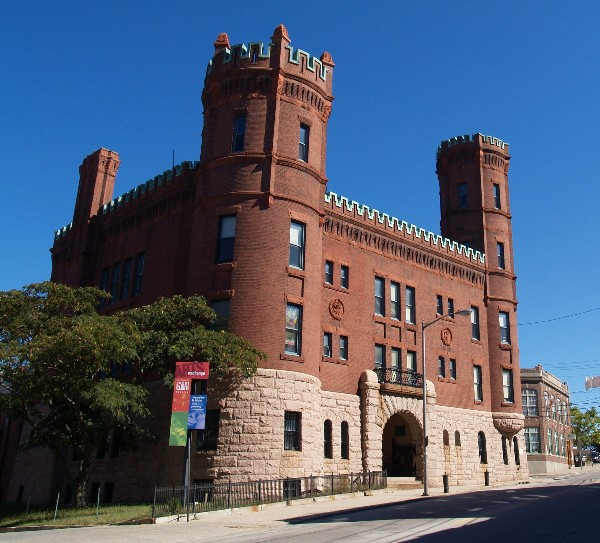 Historic Pawtucket Armory - Arts Exchange